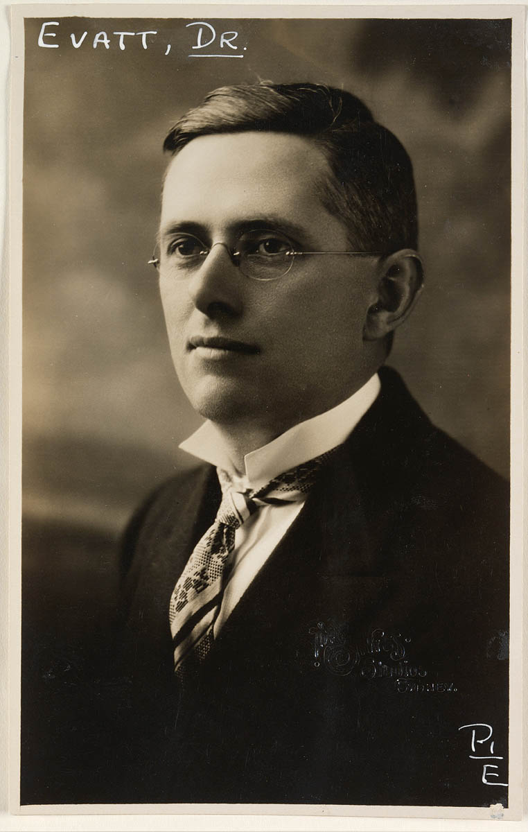 H. V. Evatt (Herbert Vere), 1894-1965 in 1925. For a complete biography of Herbert V. Evatt, see: Australian Dictionary of Biography. Vol.14, 1940-1980. Carlton, Vic. : Melbourne University Press, 1996 (pp. 108-114)